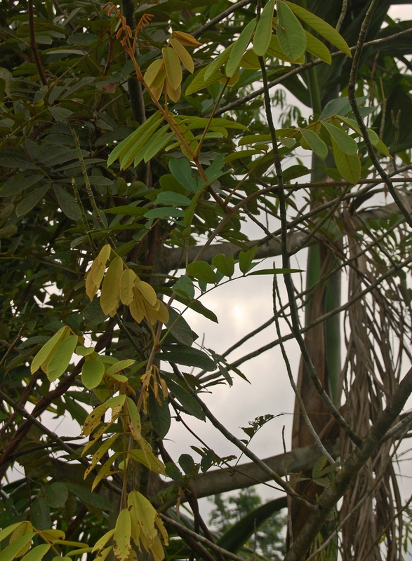 Derris elliptica buds and leaves. From Simeulue, Indonesia.